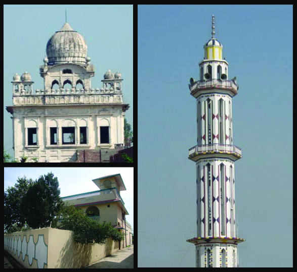 It is Gurudwara Kair Bawa on top left a historical buildings present in the village. Sikhs left this ancient buildings in 1947 at the time of independence of Pakistan.and on the top right its a Ghousiya Minar a highest minar In Jaisak Village and on the bottom left this is a very first old House in This Village. I am Adnan Nasar Alvi this is my own work I Take these pictures with my own Camera and i have the copyrights of these Pictures.